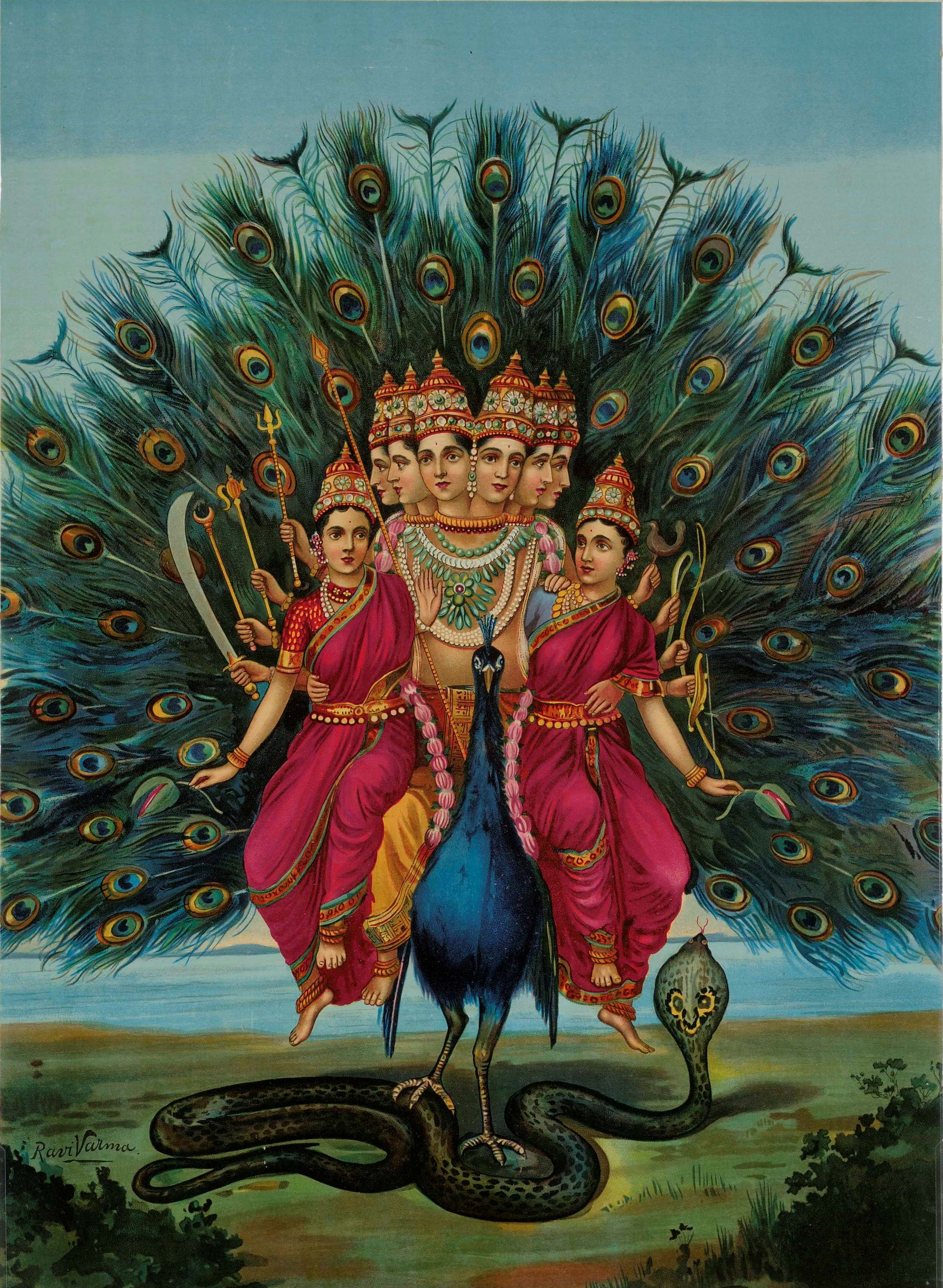 Hindu deity Karktikeya or Murugan with his consorts on his Vahana peacock.